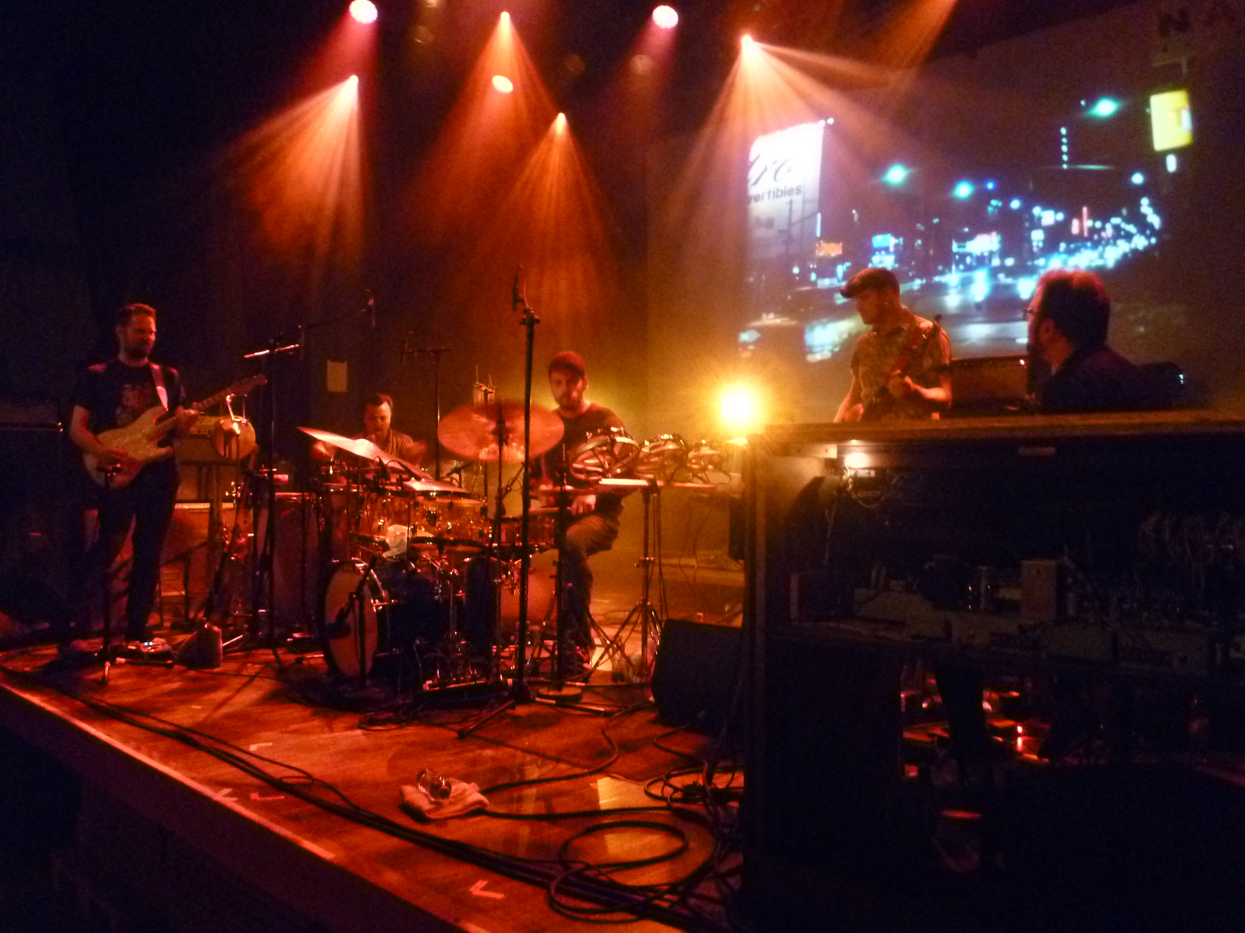 EGO including with Thomas T. Dahl, Einar Sogstad, Anders Bitustøyl, Audun Humberset and Øyvind Skarbø.